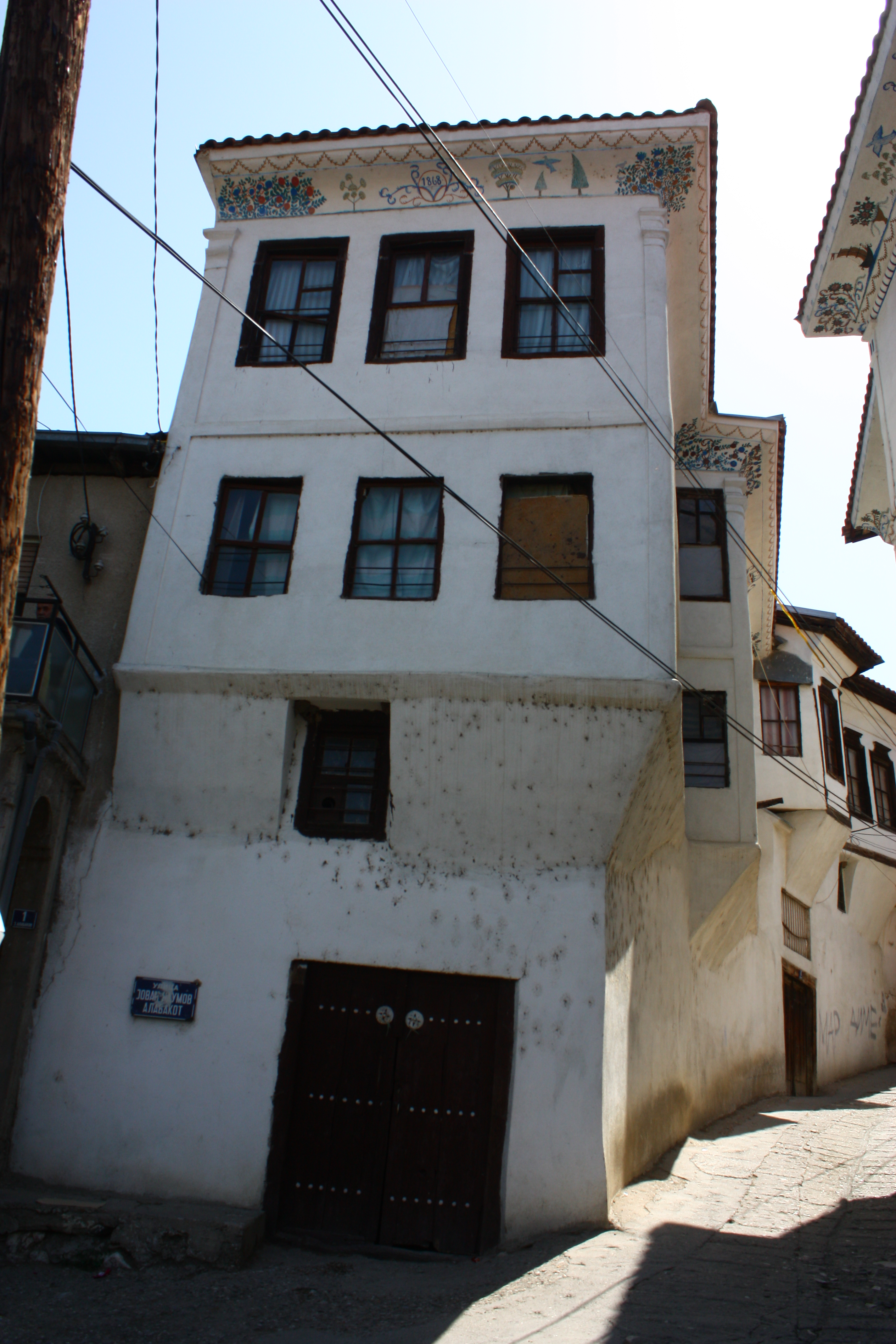 Vаrnalii complex in Veles, Macedonia